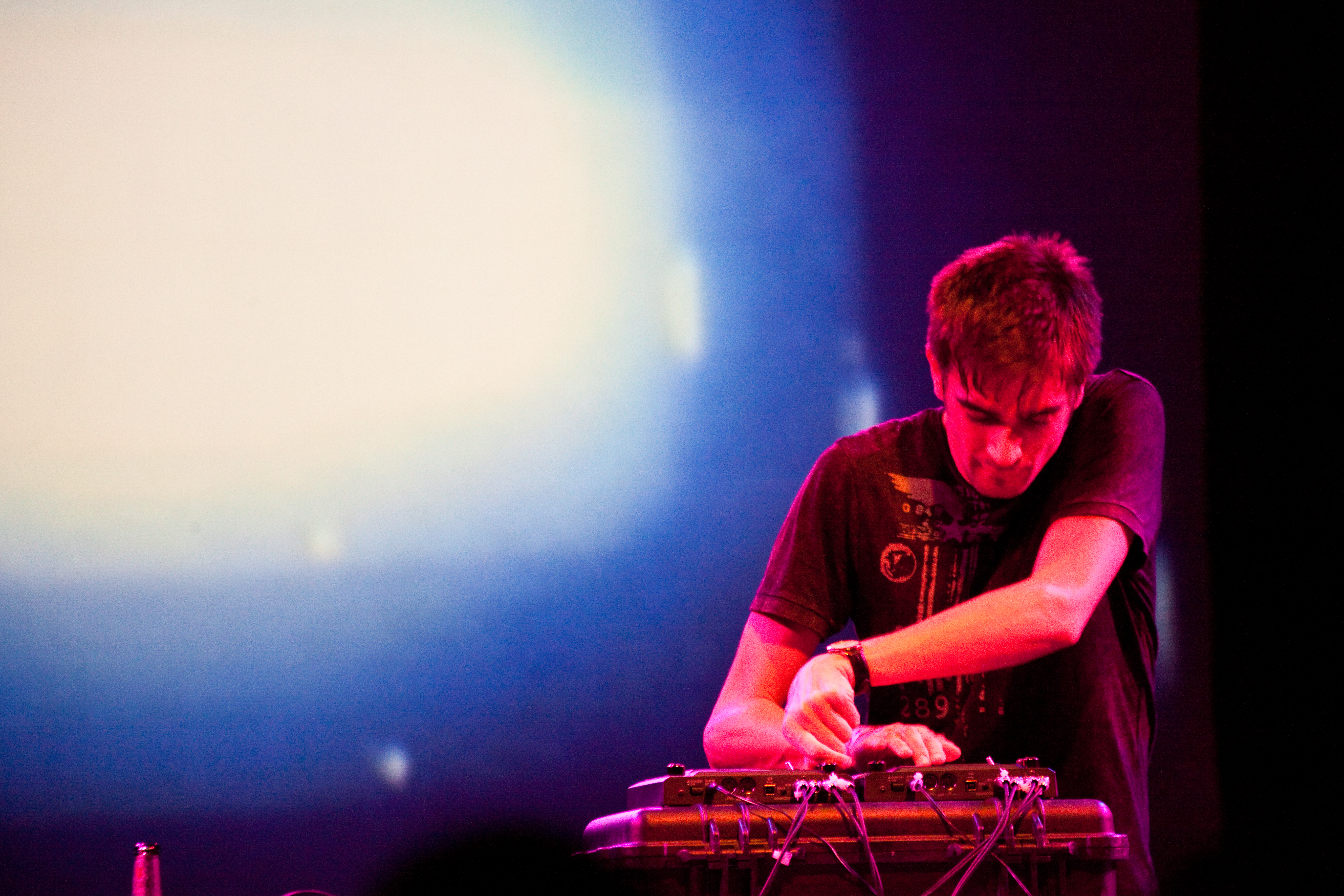 at the ICA